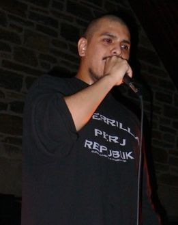 Immortal Technique performing at Haverford